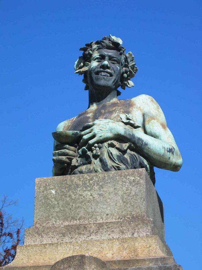 Baco (1916) - Teixeira Lopes - Porto - Portugal